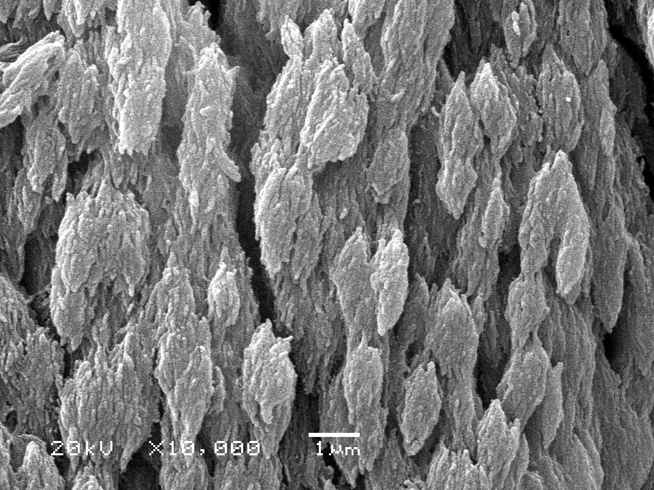 Deproteined wistar rat bone SEM micrography 10000 magnification